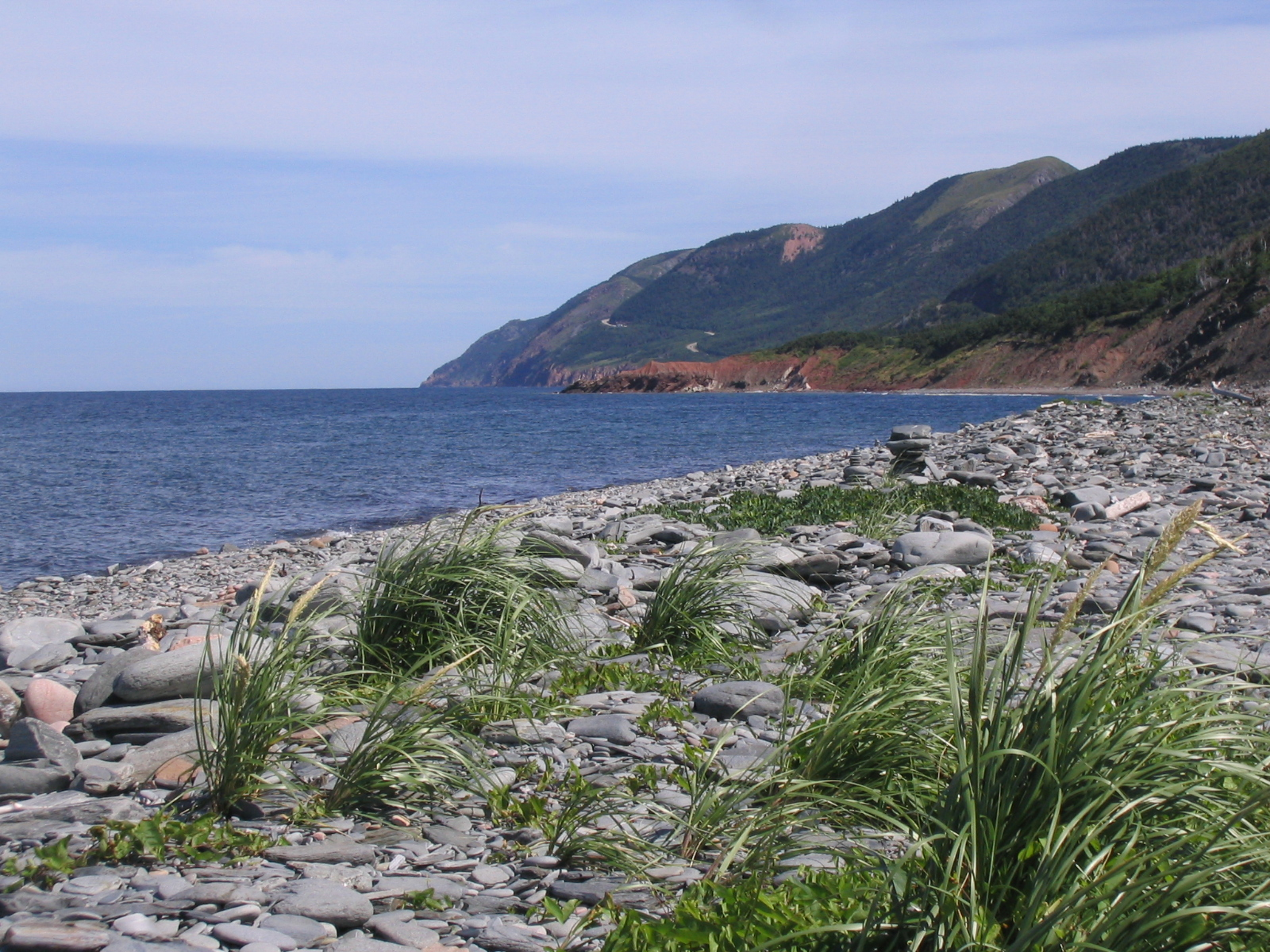 Cape Breton Island, Nova Scotia